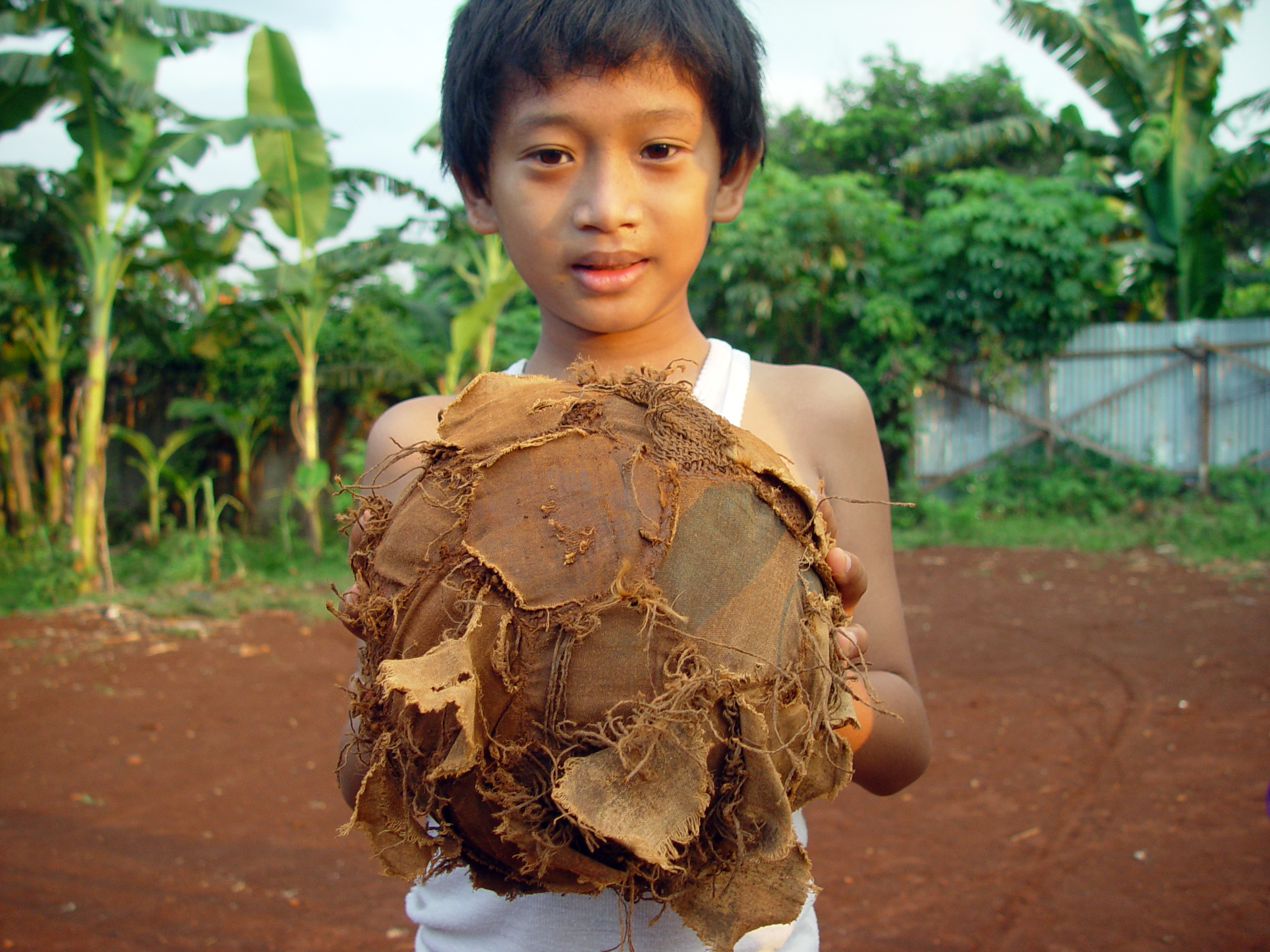 A young boy, in Jakarta Indonesia, holds a tattered football (soccer ball).